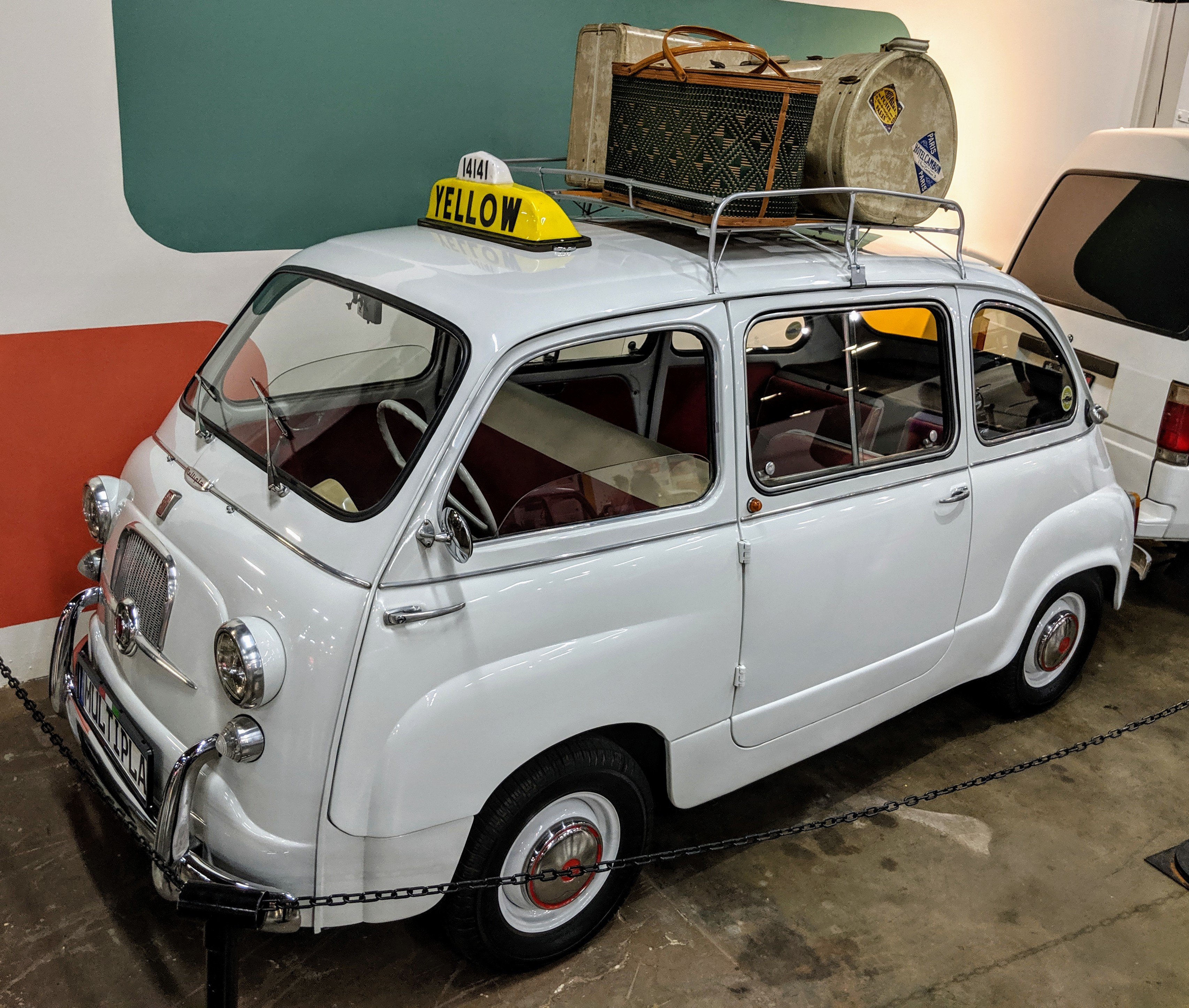 A 1966 Fiat Multipla, configure as a taxi, on display at the California Automobile Museum in Sacramento. Photo by Jim Heaphy.